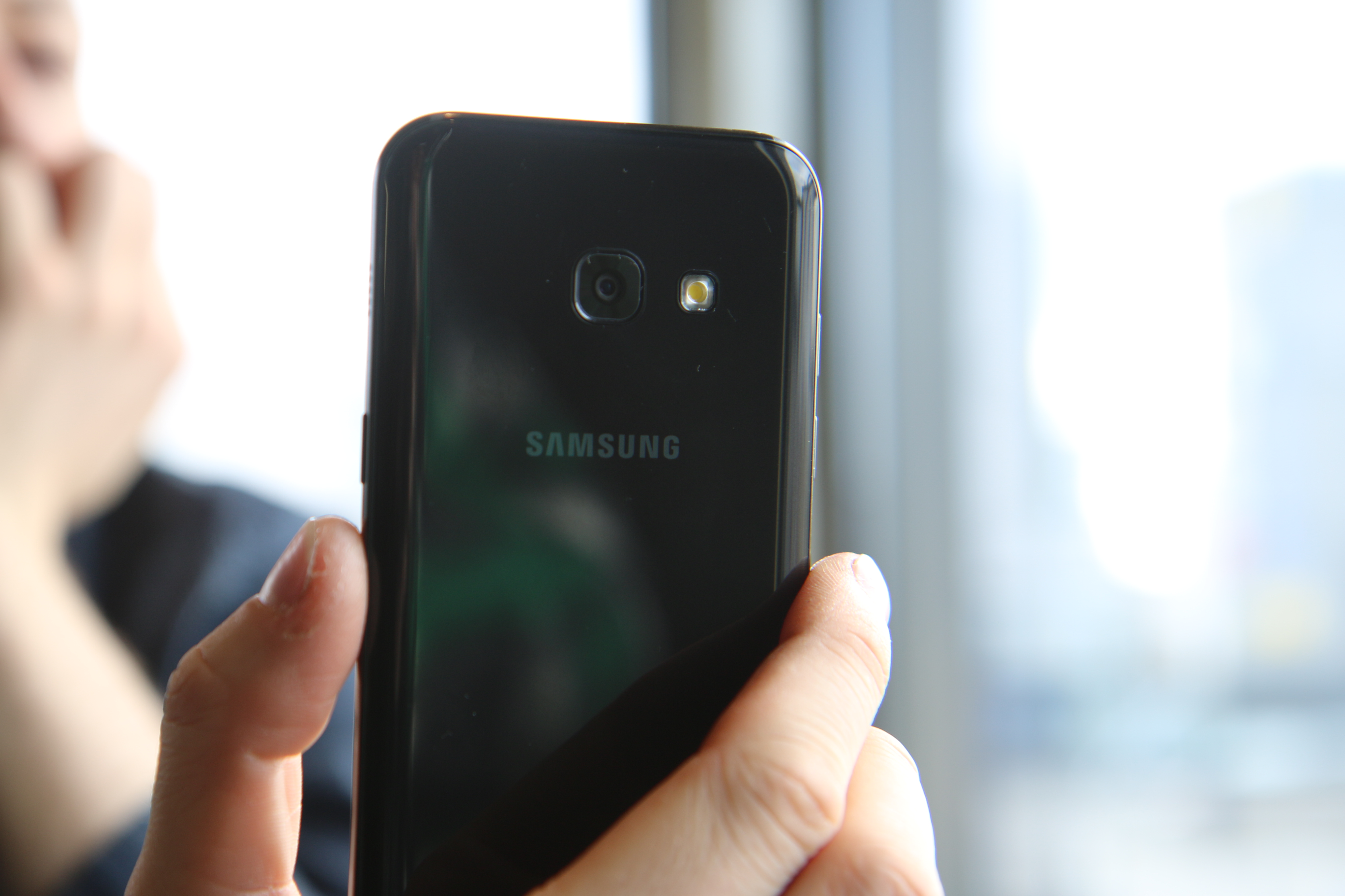 Samsung Galaxy A5 and A3 smartphones